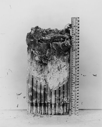 Experimental Breeder Reactor I. Core after the 1955 incident.